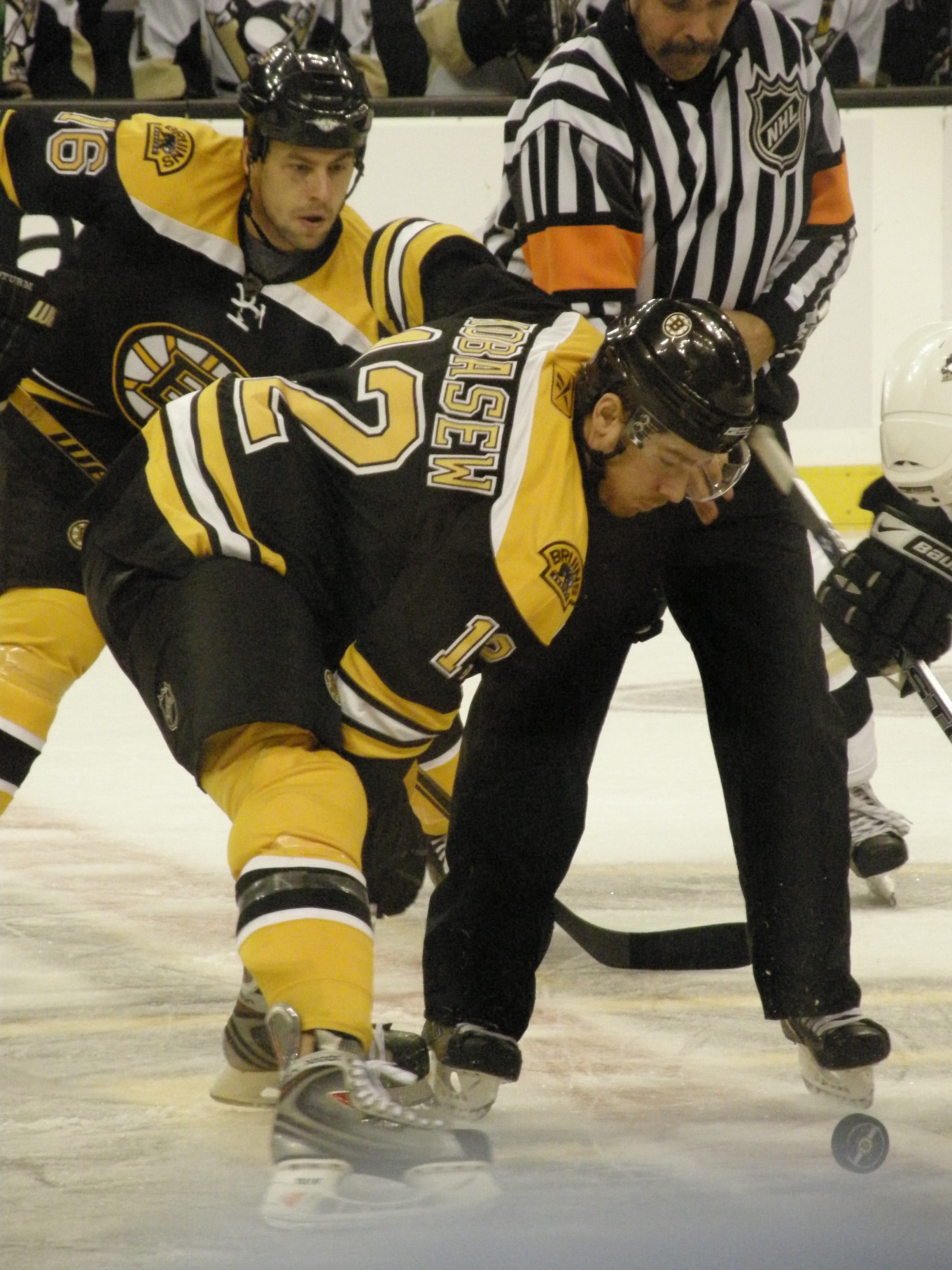 #12 Chuck Kobasew' takes a faceoff. Behind him, #16 Marco Sturm